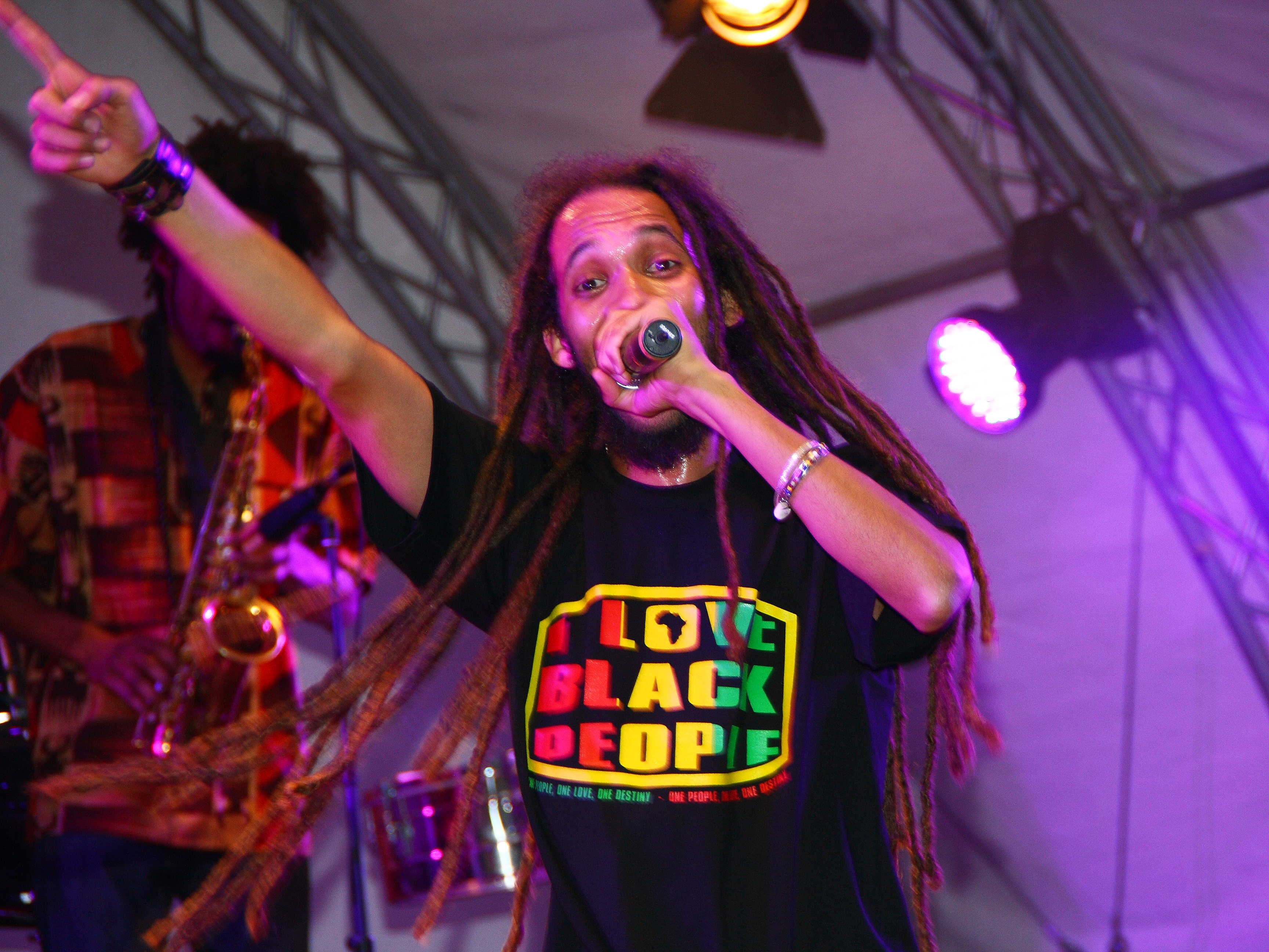 Kumar at TFF.Rudolstadt 2010